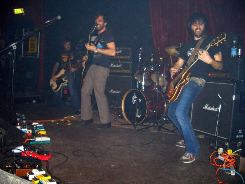 Cave In im Backstage Club in München 1. Februar 2006. Cave In at the Backstage Club in Munich, February 1, 2006.